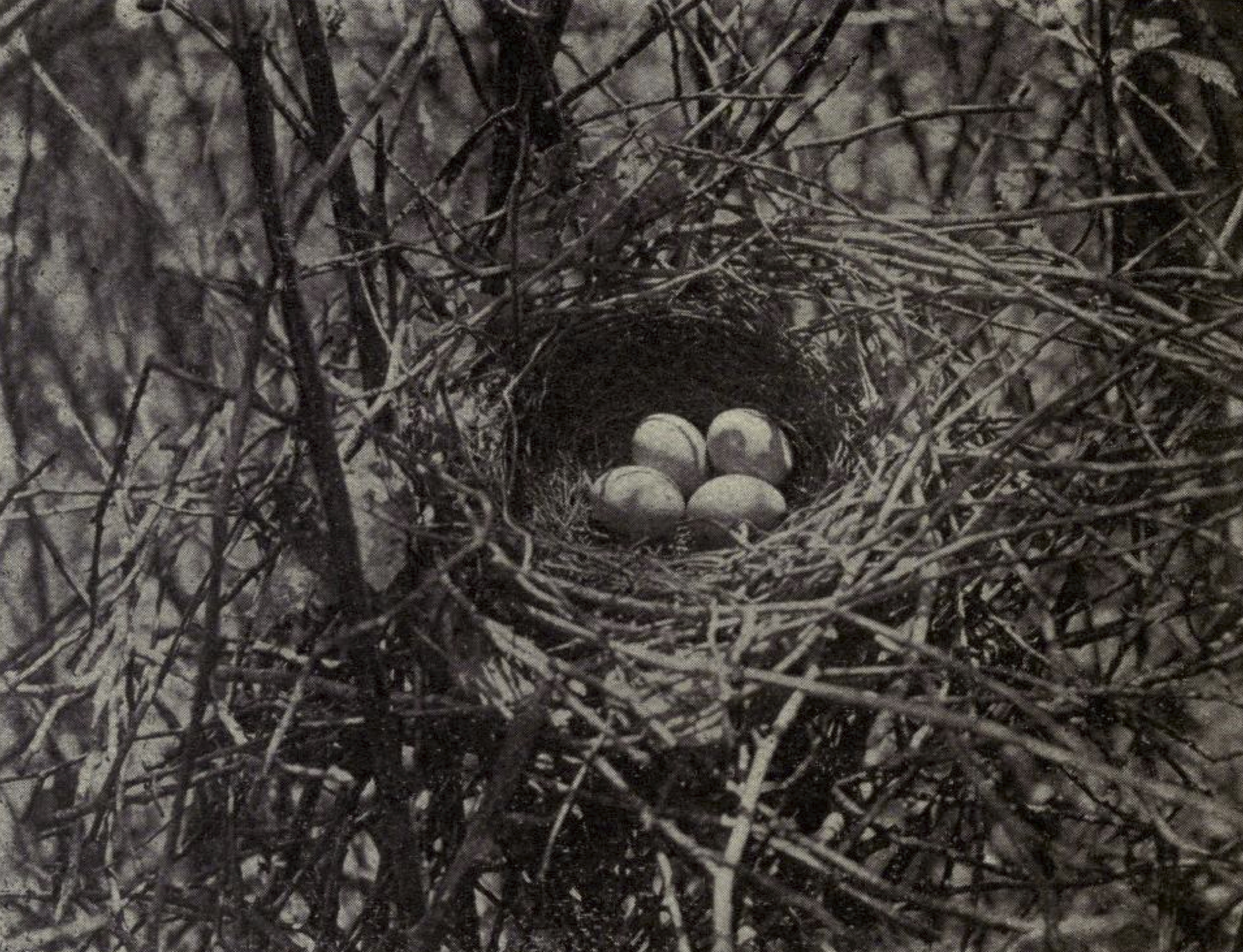 Four Toxostoma rufum (Brown Thrasher) eggs.